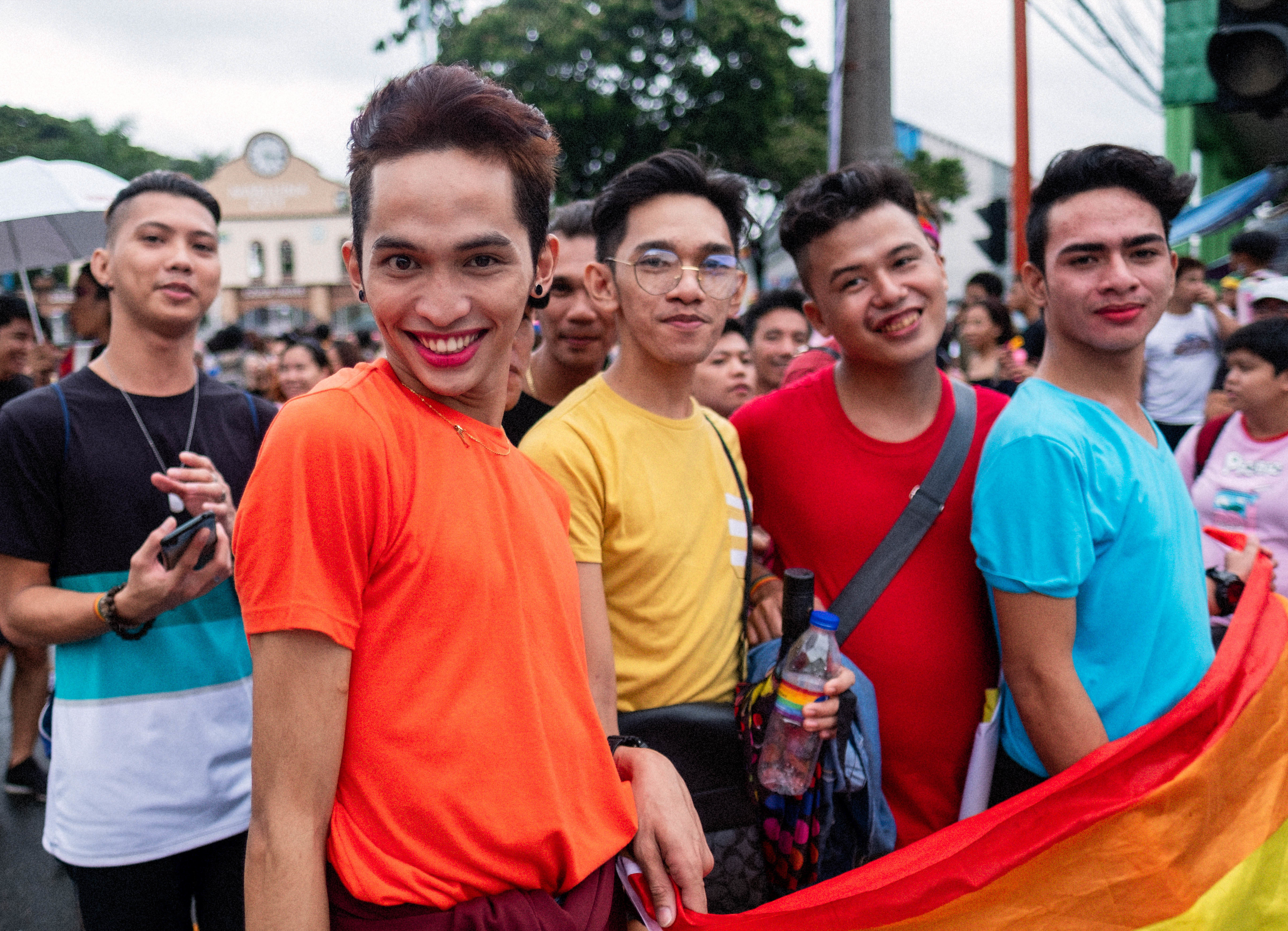 Philippine LGBTQ+ Protester During Pride MarchLocation: Manila, PhilippinesEvent type: Metro Manila Pride March 2019Date or year: 2019